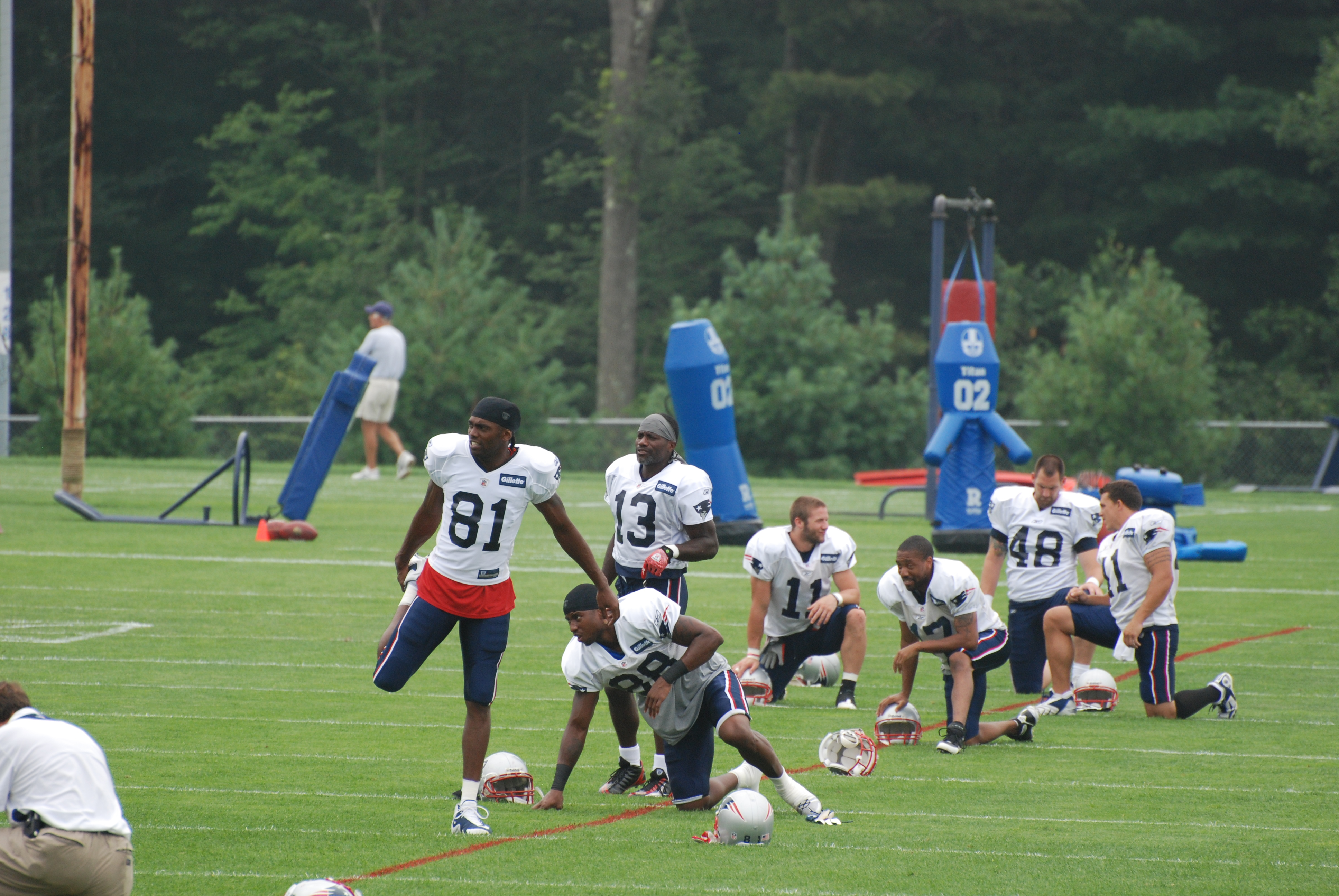 New England Patriots training camp 2009, mostly wide receivers. L-R: #81 Randy Moss, #88 Sam Aiken, #13 Joey Galloway, #11 Julian Edelman, #17 Greg Lewis, #48 Nathan Hodel, #41 Ray Ventrone